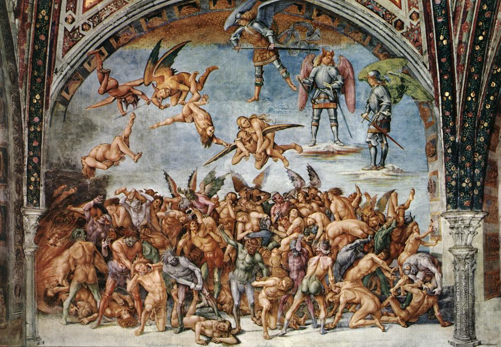 SIGNORELLI, Luca The Damned in Hell Fresco Chapel of San Brizio, Duomo, Orvieto